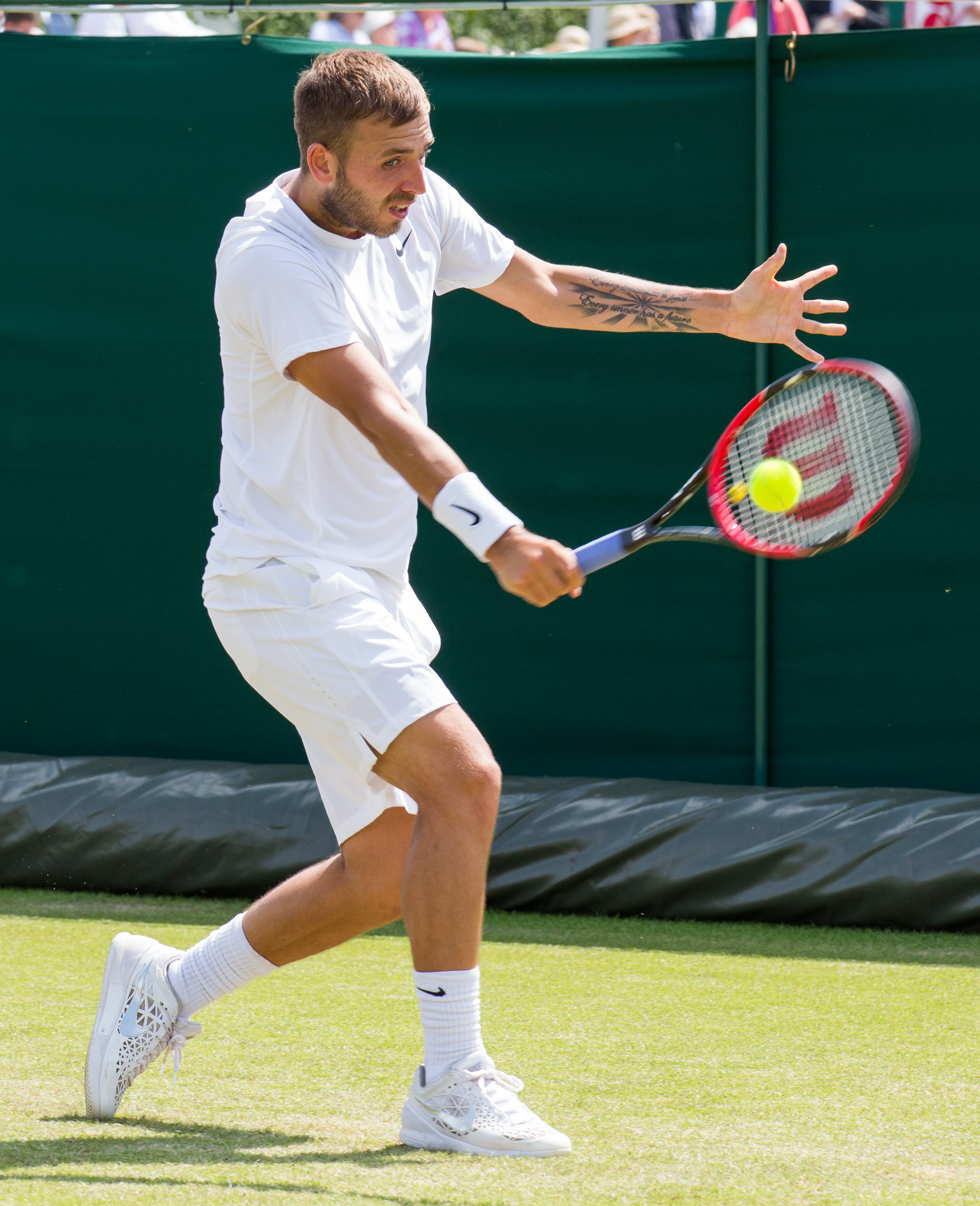 Daniel Evans competing in the second round of the 2015 Wimbledon Qualifying Tournament at the Bank of England Sports Grounds in Roehampton, England. The winners of three rounds of competition qualify for the main draw of Wimbledon the following week.